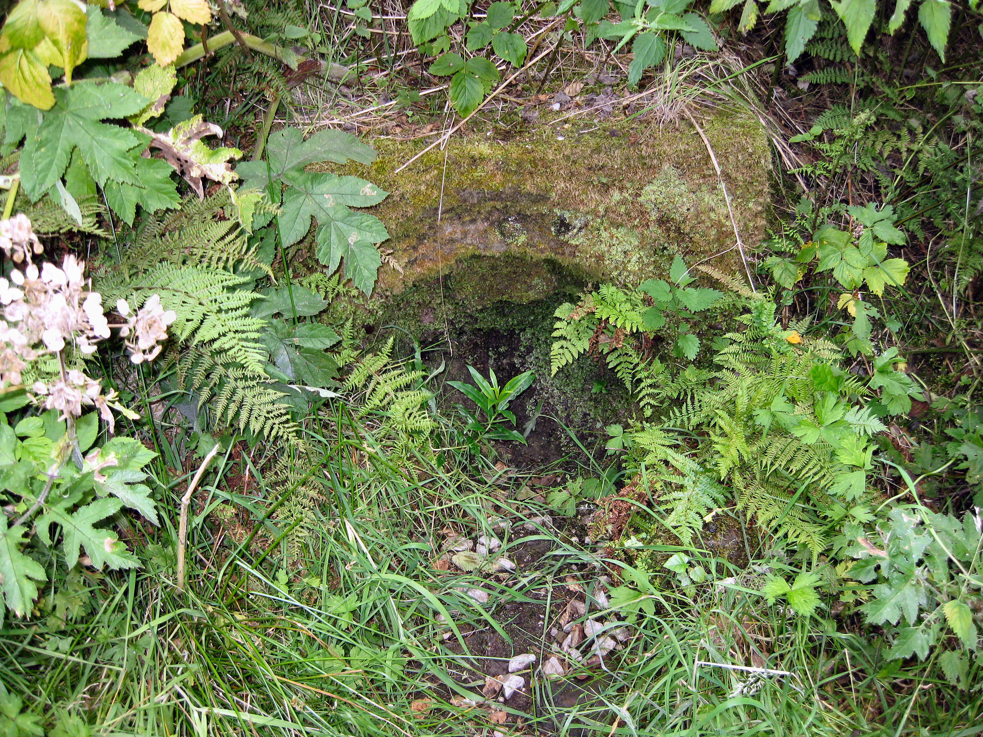 Slabbering Baby. (Also known as the Old Man's Mouth.) Now overgrown and indistinct, but was a carved water spout inside the arch. Dates from the 1800s, possibly by stonemason David Verity. In Scotland Wood, Leeds, near Adel Beck on the Meanwood Valley Trail.